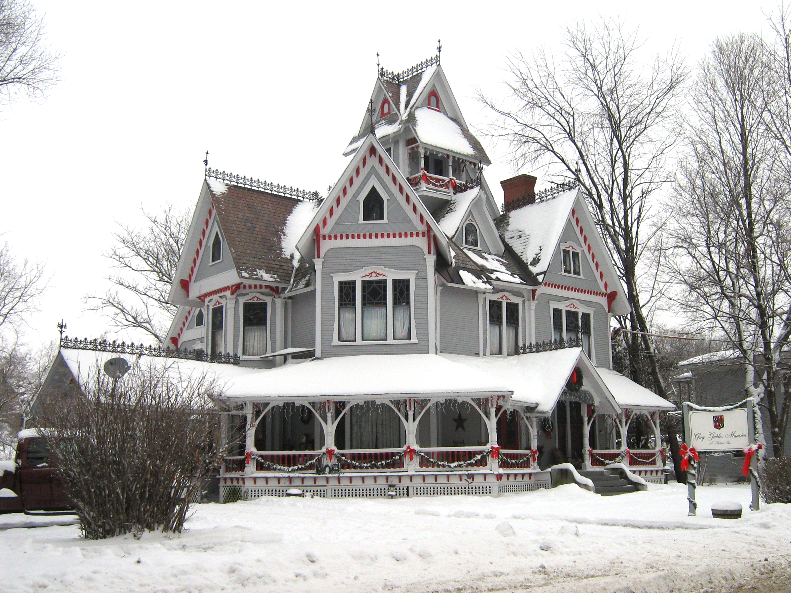 Sheldon Boright House, bbuilt for wealthy local entrepreneur Sheldon Boright, this has been a private residence, a nursing home, and now a B&B.